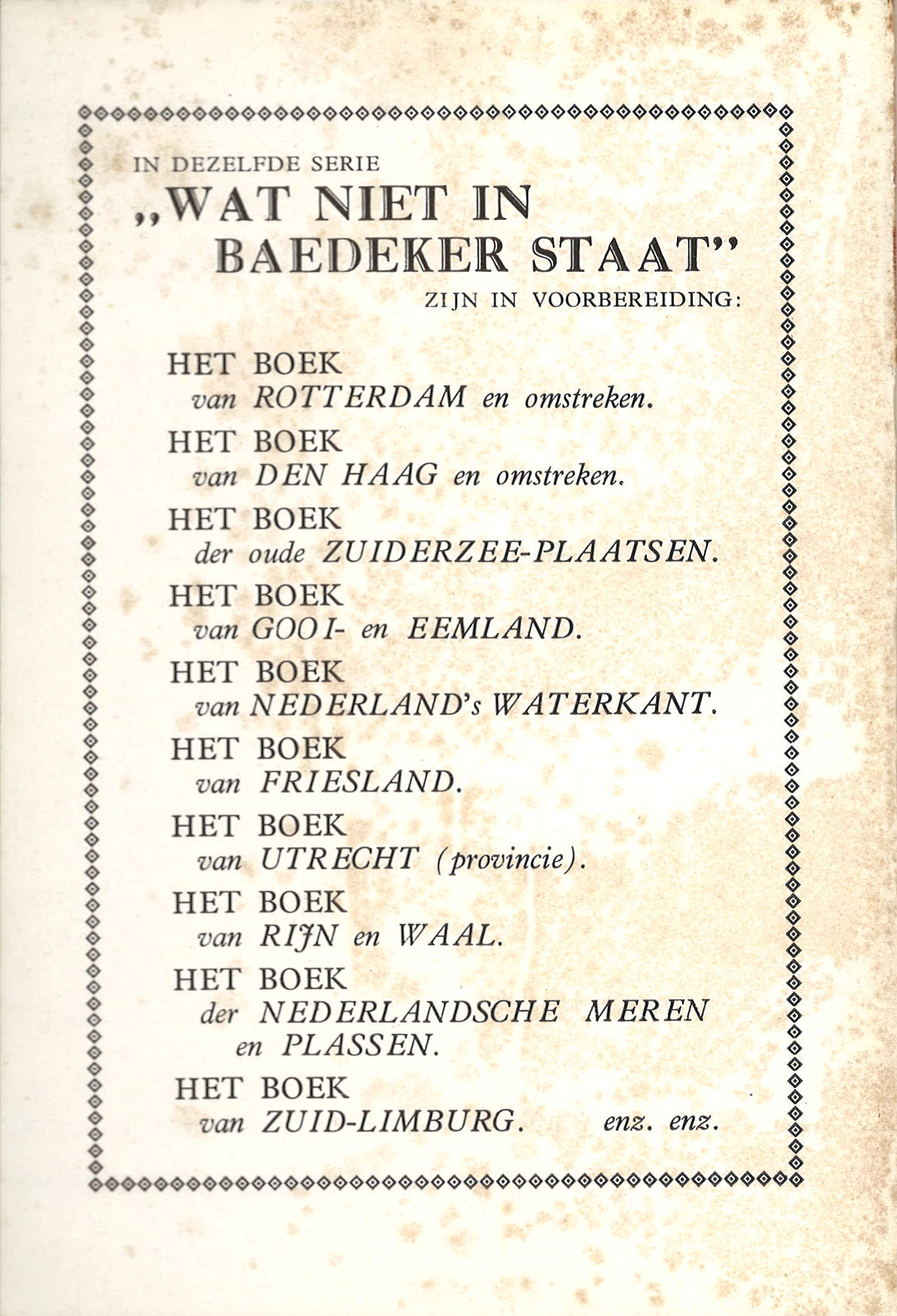 Advert page of "Het boek van Amsterdam", 1st edition (1930), in the series "Wat niet in Baedeker staat"